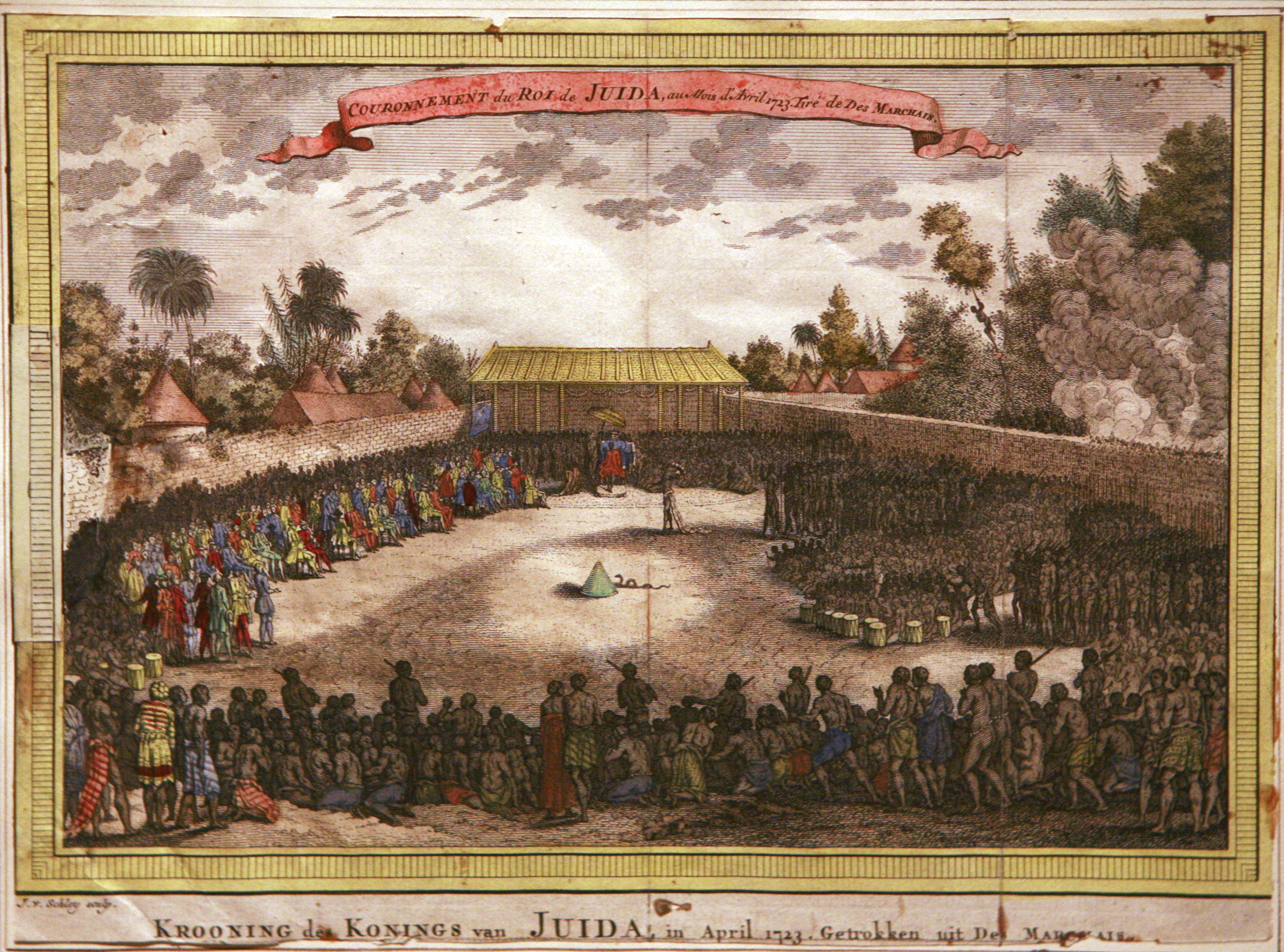 Crowning of the King of Whydah, april 1723, engraving by Jacob van der Schley/Jacob van Schley (1715-1779). Print from the book by "Des Marchais". On display at the Musée de la Compagnie des Indes in Port-Louis